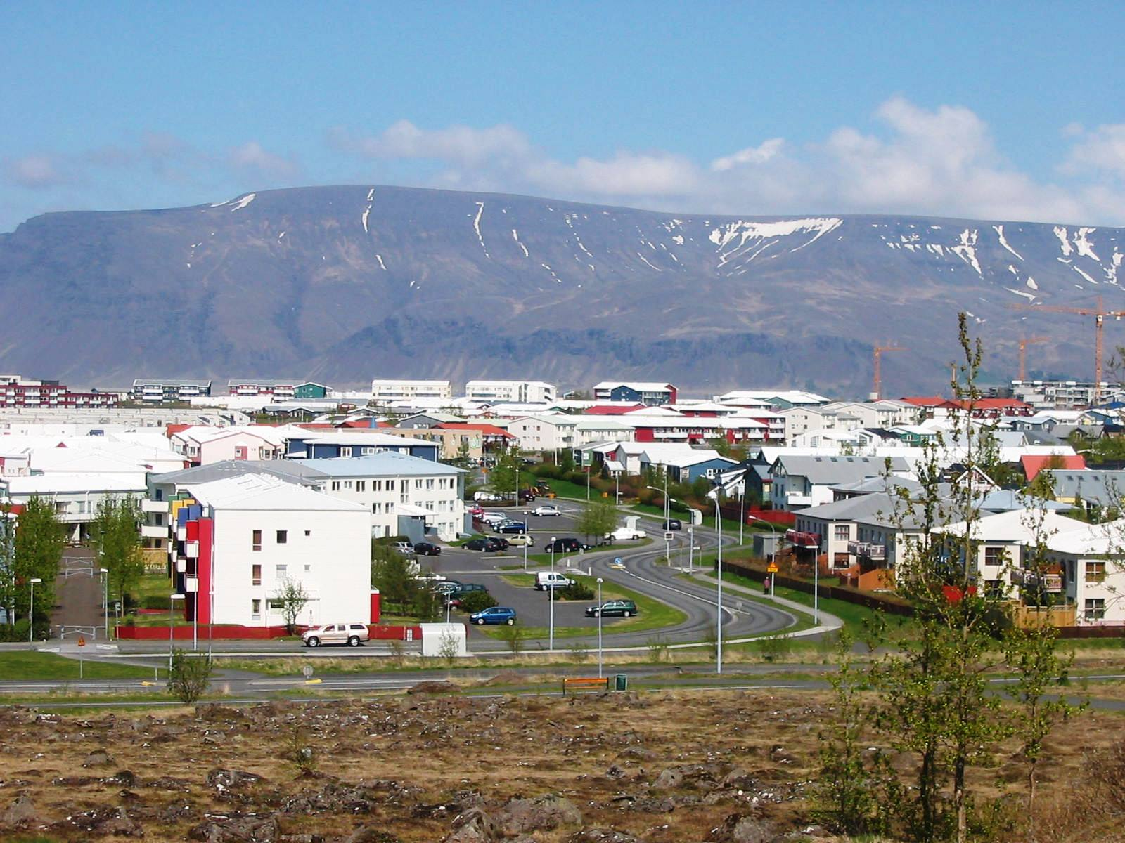 Rimi and Borgir subdistricts of Grafarvogur district, Reykjavik